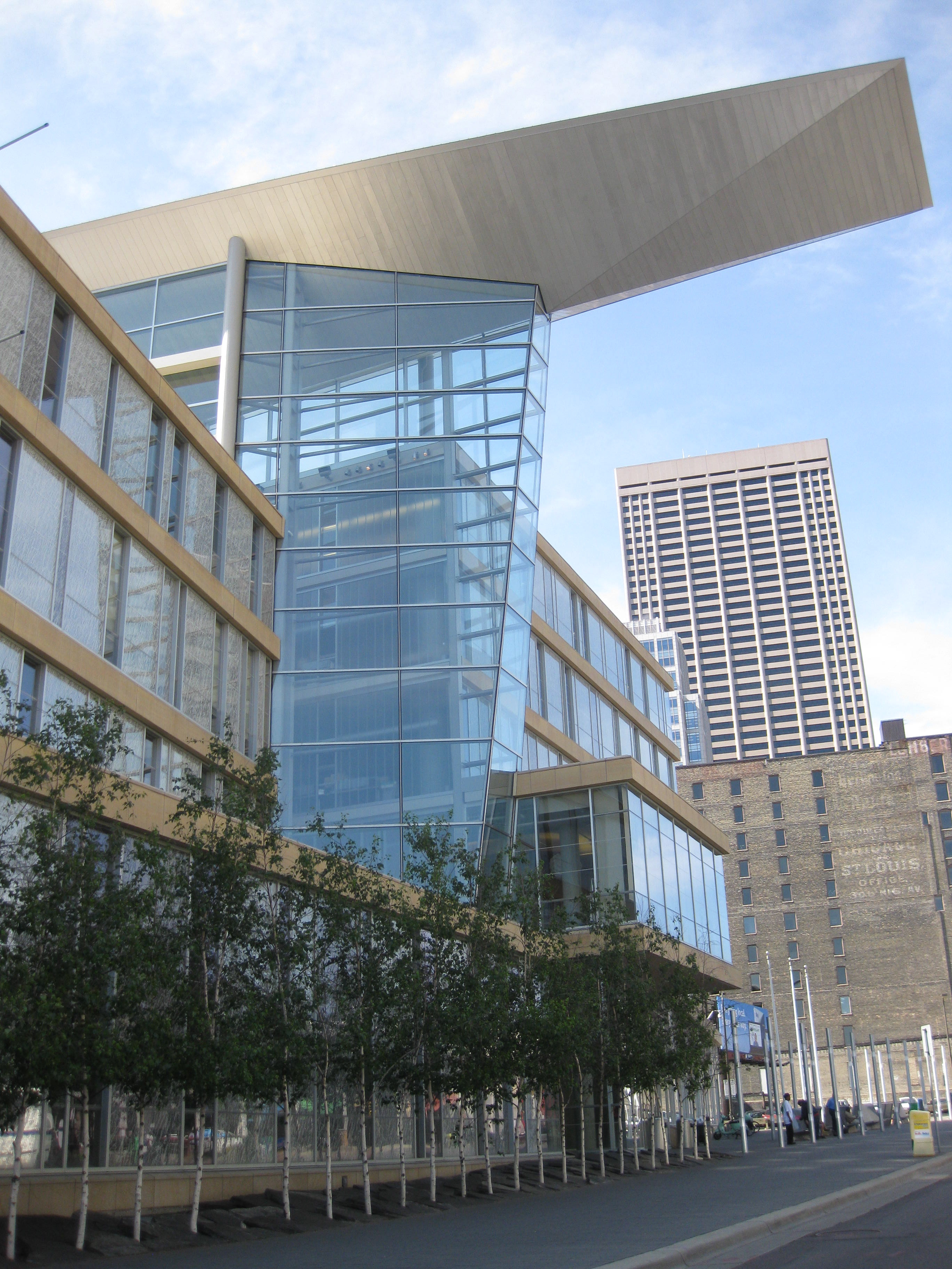 Minneapolis Central Library, on the Hennepin Avenue side.